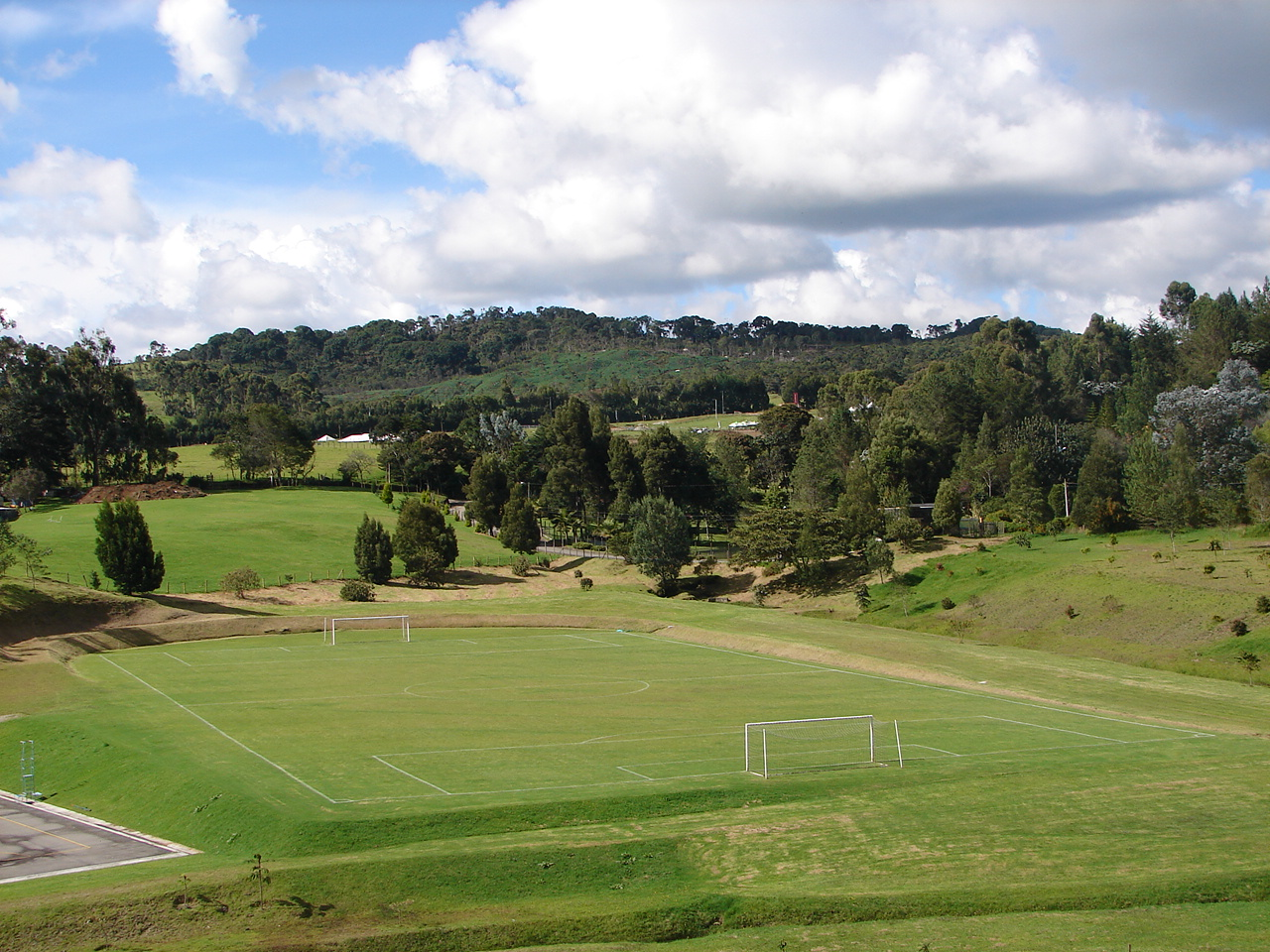 Antioquia School of Engineering of Undergraduate site.